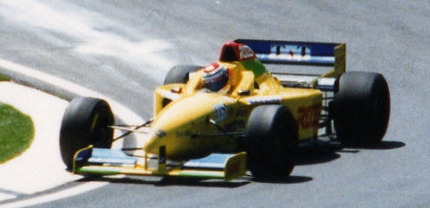 Andrea Montermini during free practice of 1996 San Marino Grand Prix